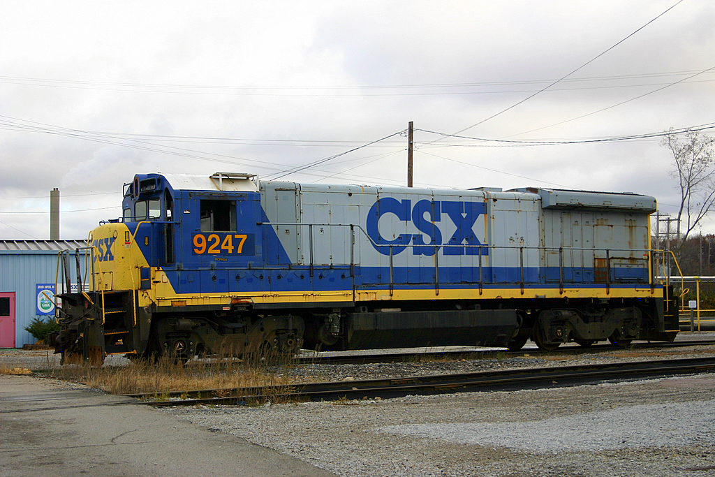 now a slug for a remote control platform, ex SBD B36-7, now a "RCPHG4" or something, i just refer to them as remote control pigs